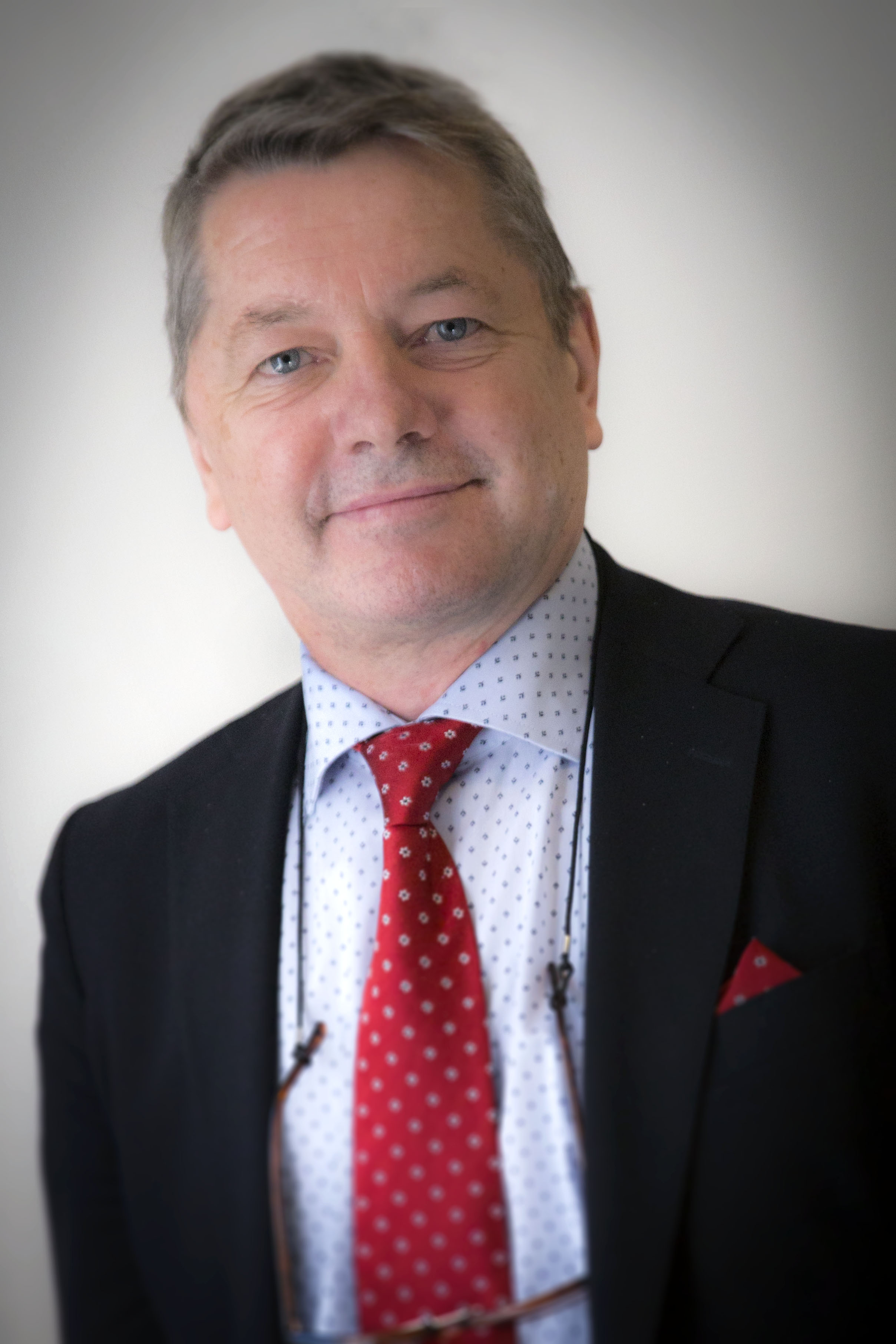 Lars Niklasson